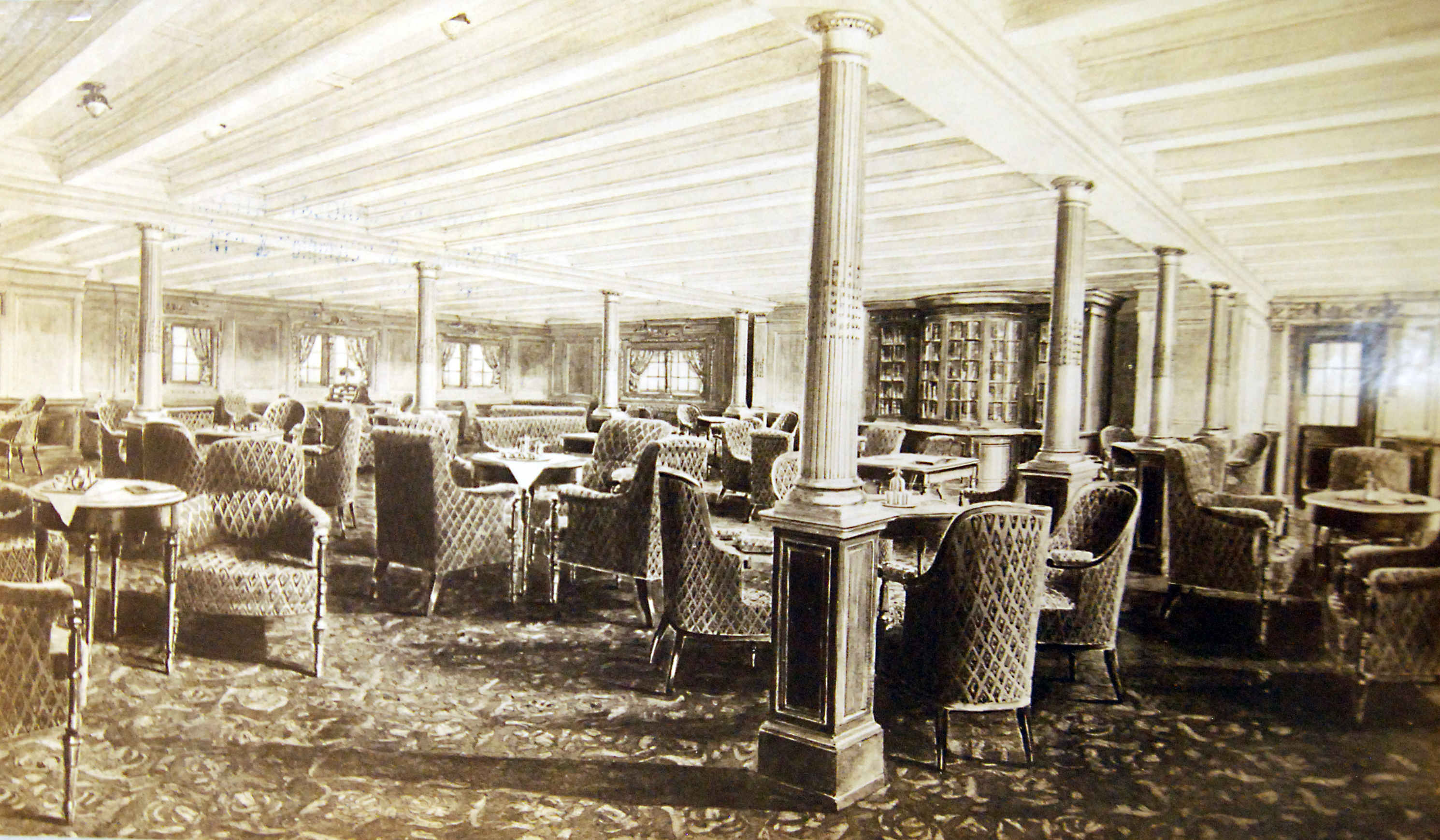 Lot-11261-3: RMS Olympic, second class library. George G. Bain Collection. Courtesy of the Library of Congress. (2016/12/02)